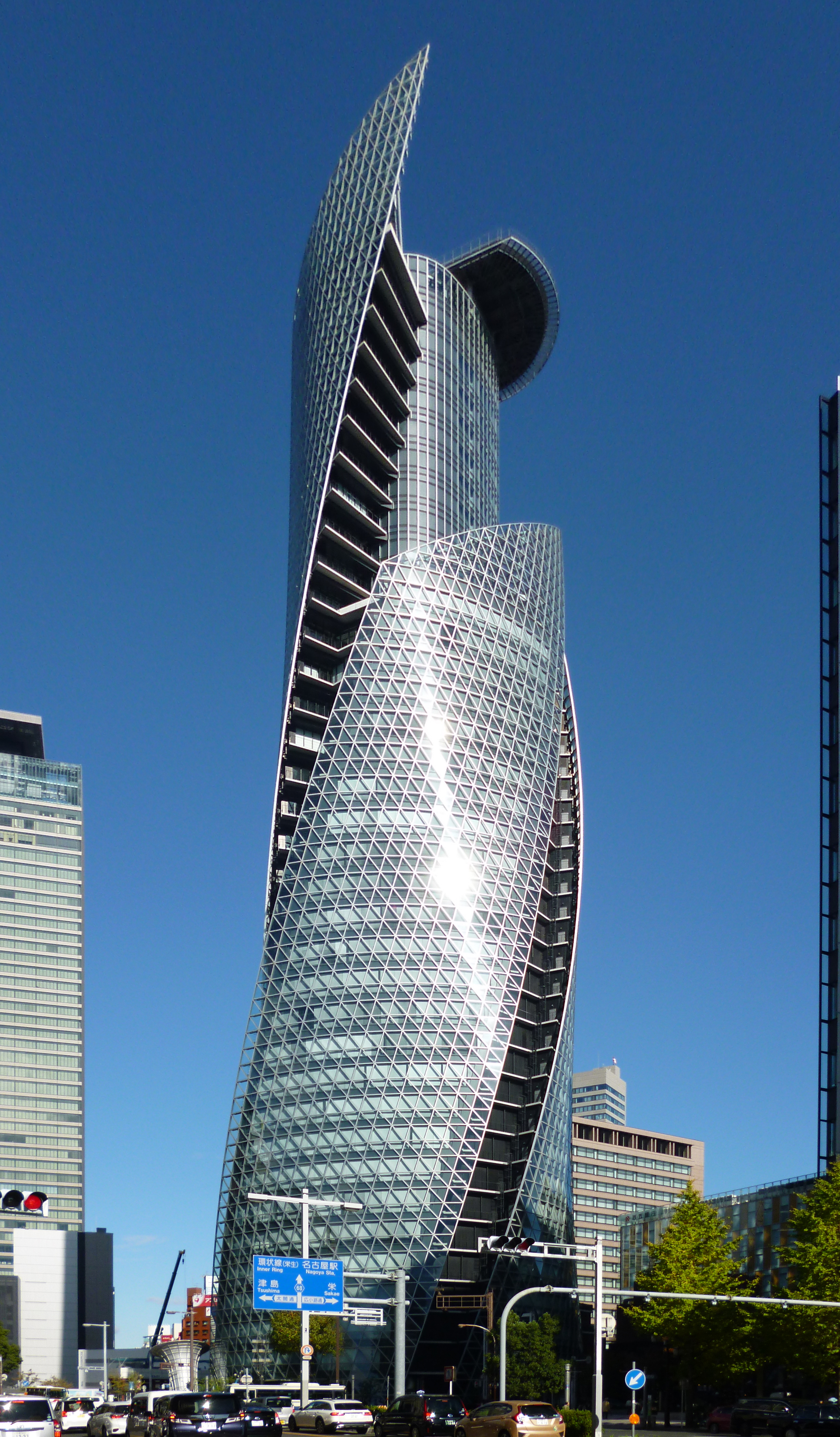 Mode Gakuen Spiral Towers in Nakamura-ku, Nagoya, Aichi Prefecture, Japan.